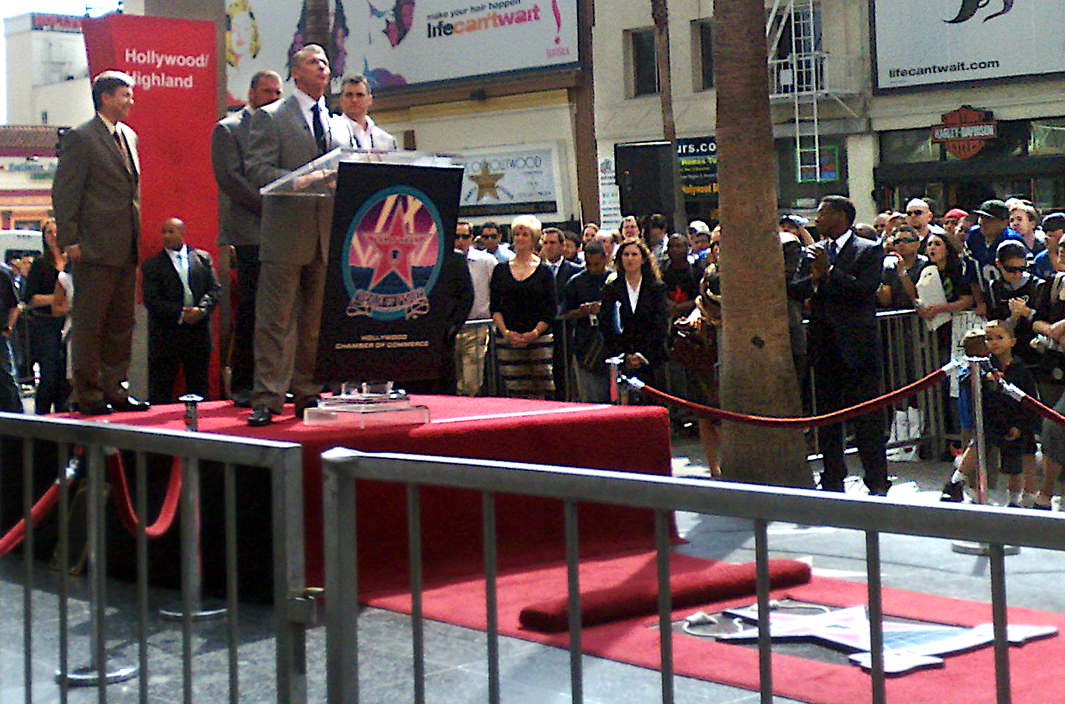 Vince McMahon gets a star on the Hollywood Walk of Fame